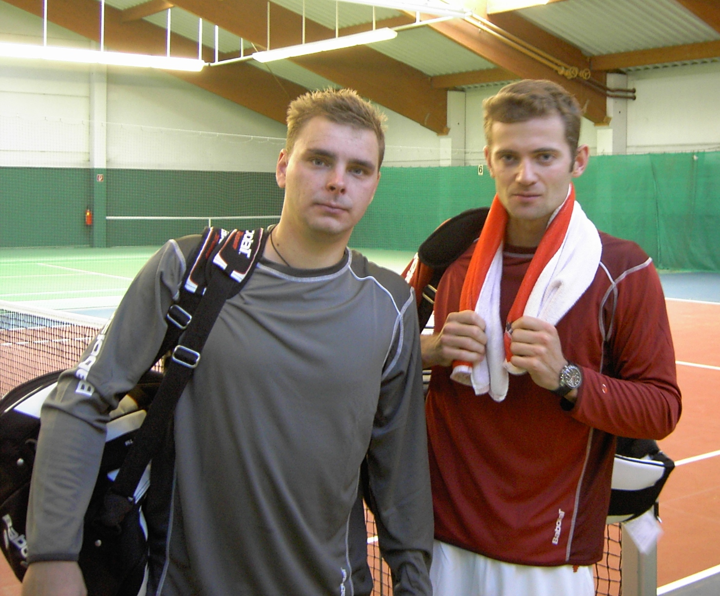 Marcin Matkowski and Mariusz Fyrstenberg after the training during the Bank Austria Tennis Trophy 2008